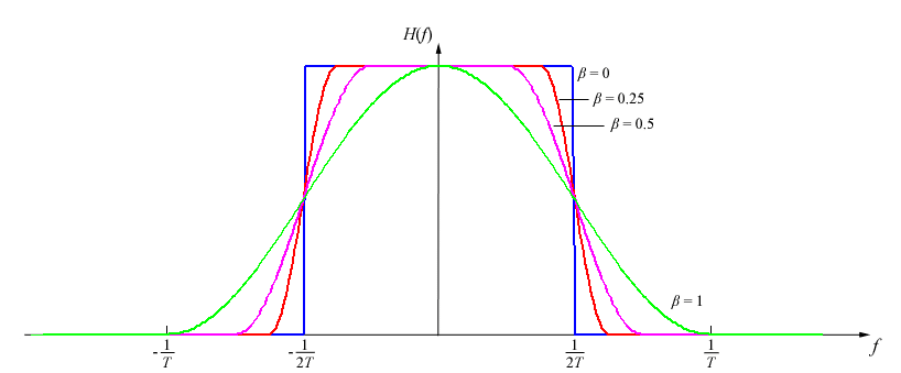 Raised Cosine Filter Response